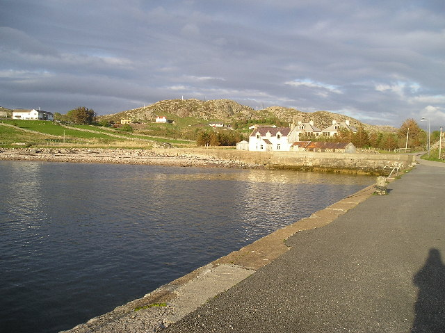 Kinlochbervie Old Harbour